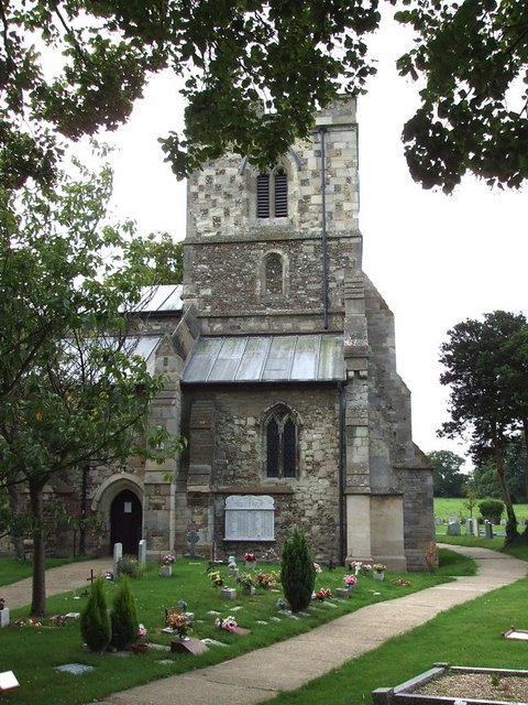 West tower of St Mary's parish church, Sundon, Bedfordshire, seen from the north